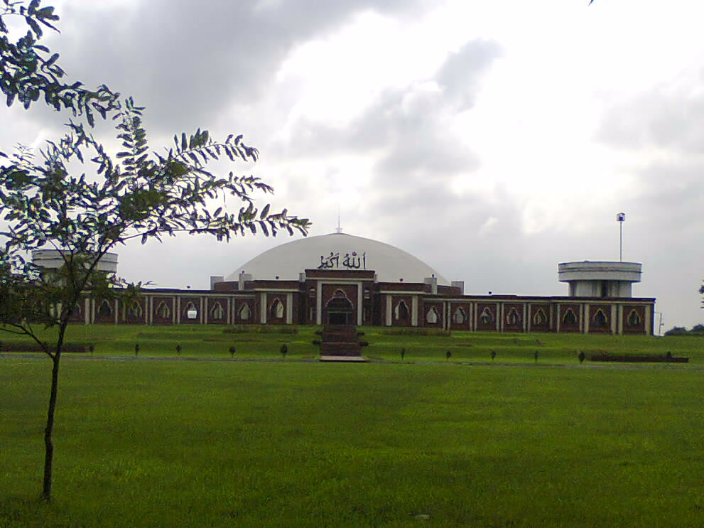 Front facade of the Sena Kendriyo Masjid in Dhaka Army Base